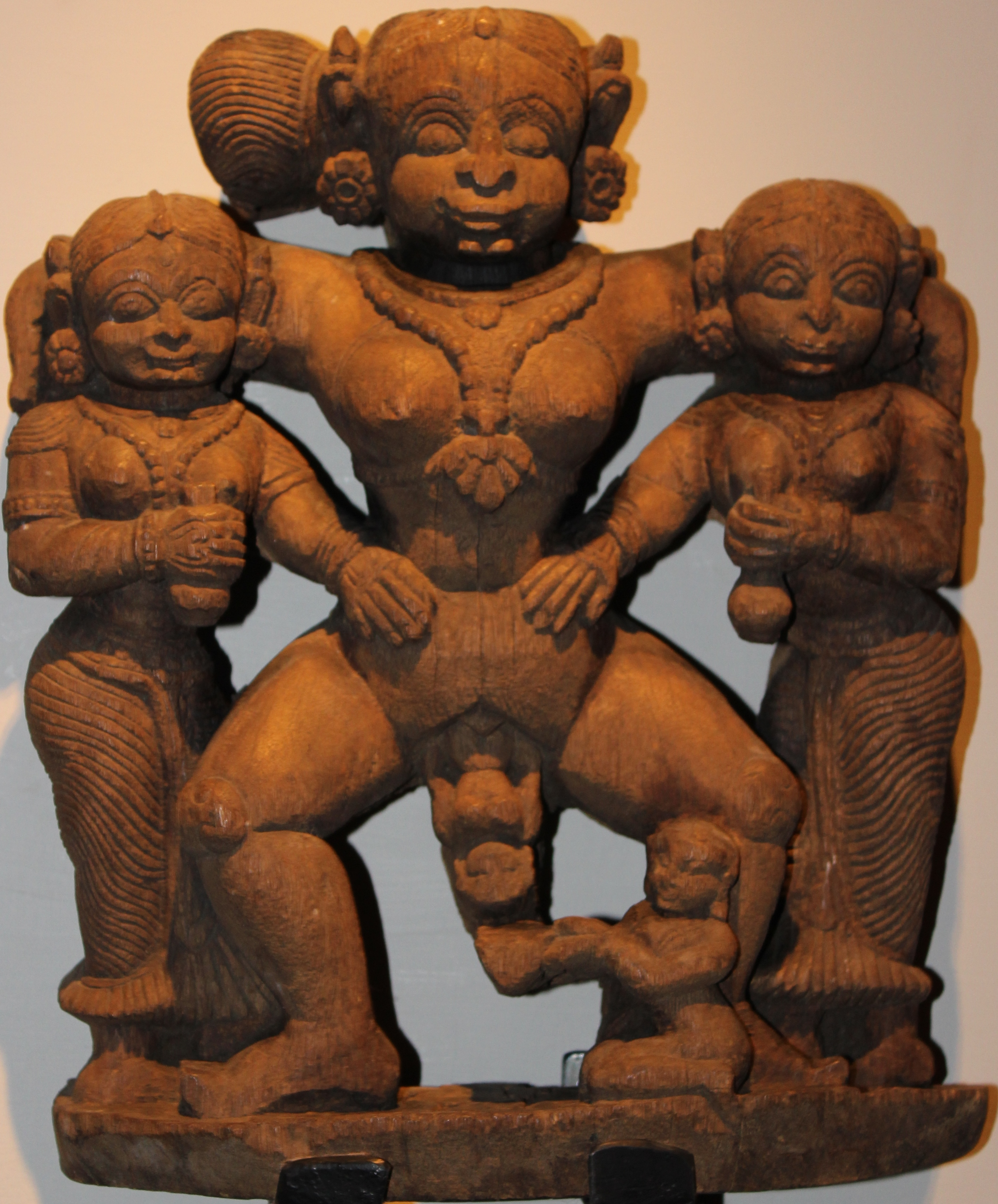 a wooden sculpture from 8th century with shows a women giving birth to a child